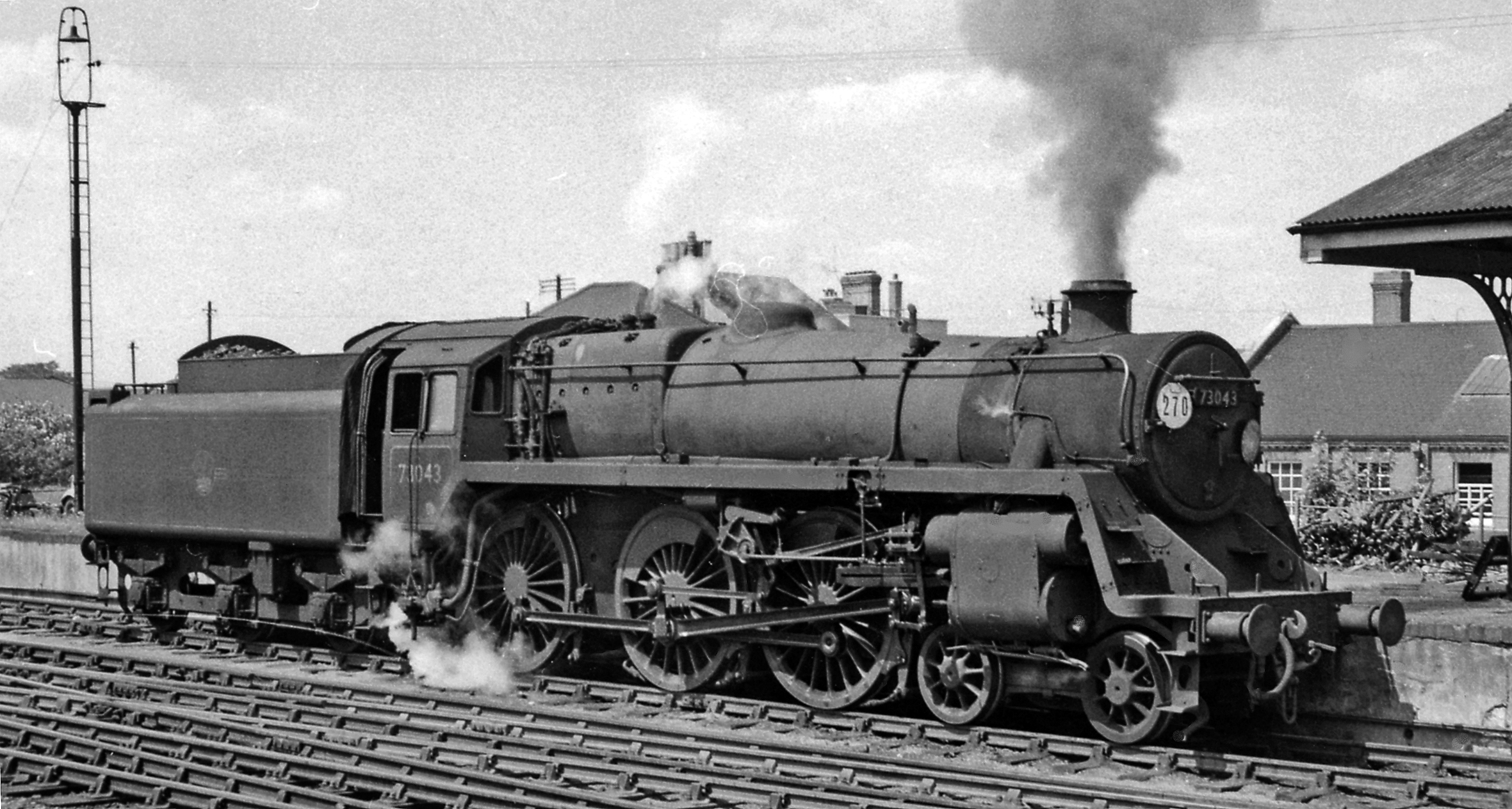 BR Standard 5MT 4-6-0 at Salisbury. The view is apparently eastward and the locomotive at the west end of the station on the Up side: ex-LSW West of England main line. In the latter days of steam, BR Standard 5MT 4-6-0s took over much of the work and some of the names from the SR 'King Arthur' 4-6-0s: No. 73043 was built 11/53, came to the SR 12/62 and was withdrawn 7/67 but never received a name.